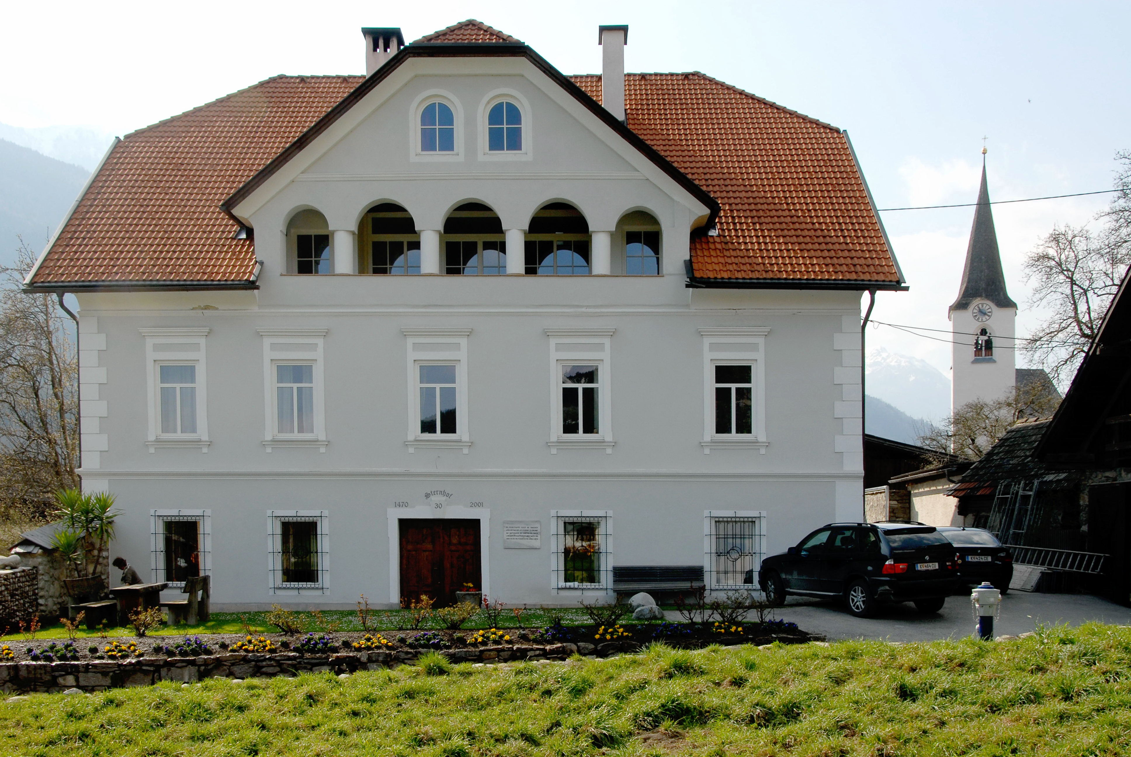 Sternhof, built in 1470 and renovated 2001 at the community Muehldorf, situated in the district of Spittal by the Drau, Carinthia, Austria. The farm owned by an extensive forest. The resistance fighters Baptist Türk drew from Sternhof 1809 as headquarters for the Upper Carinthian resistance against Napoleon's.